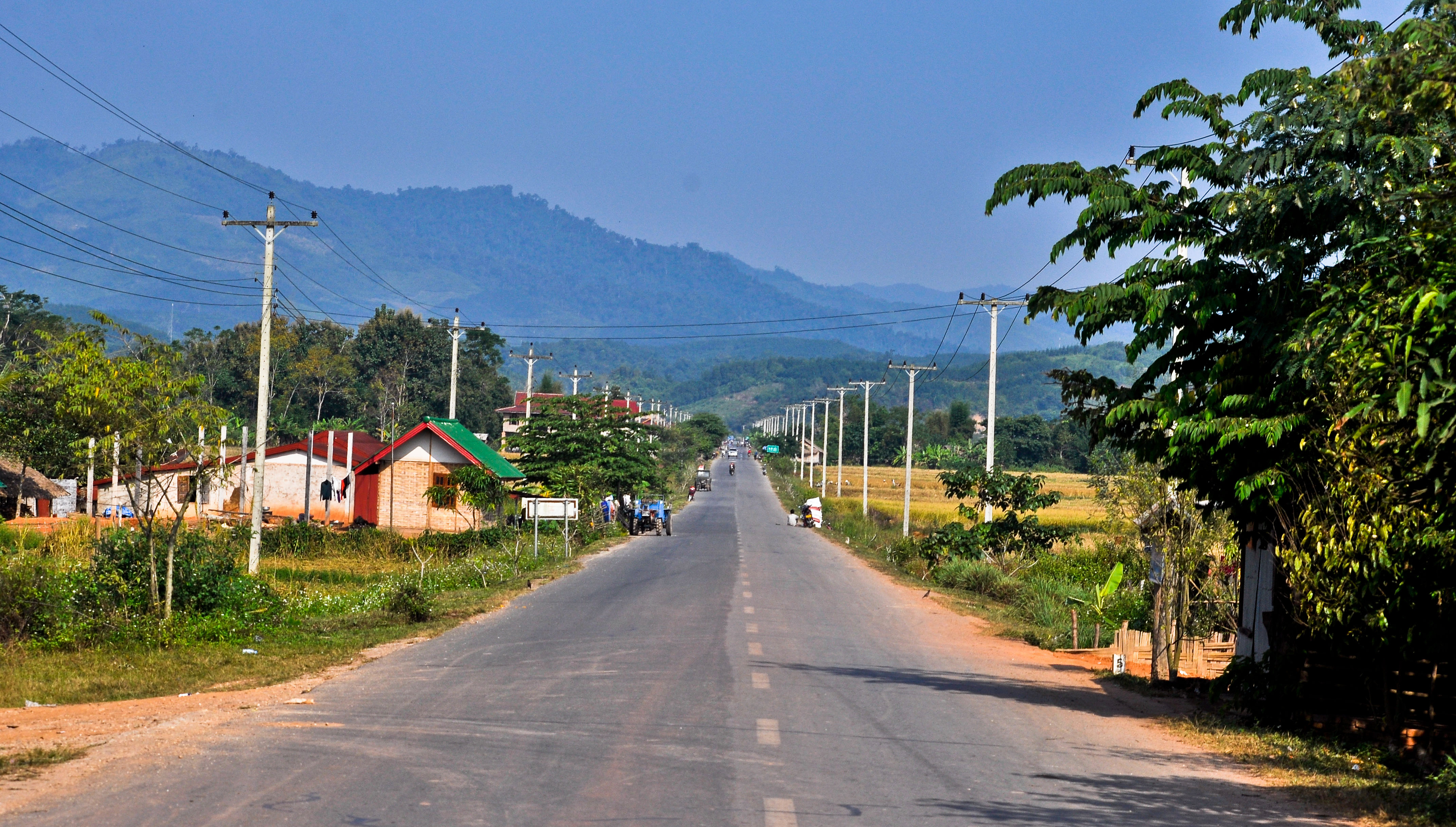 view at Ban Tongdee